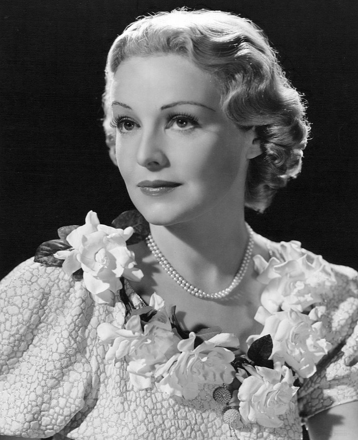 Photo of actress Madeleine Carroll.